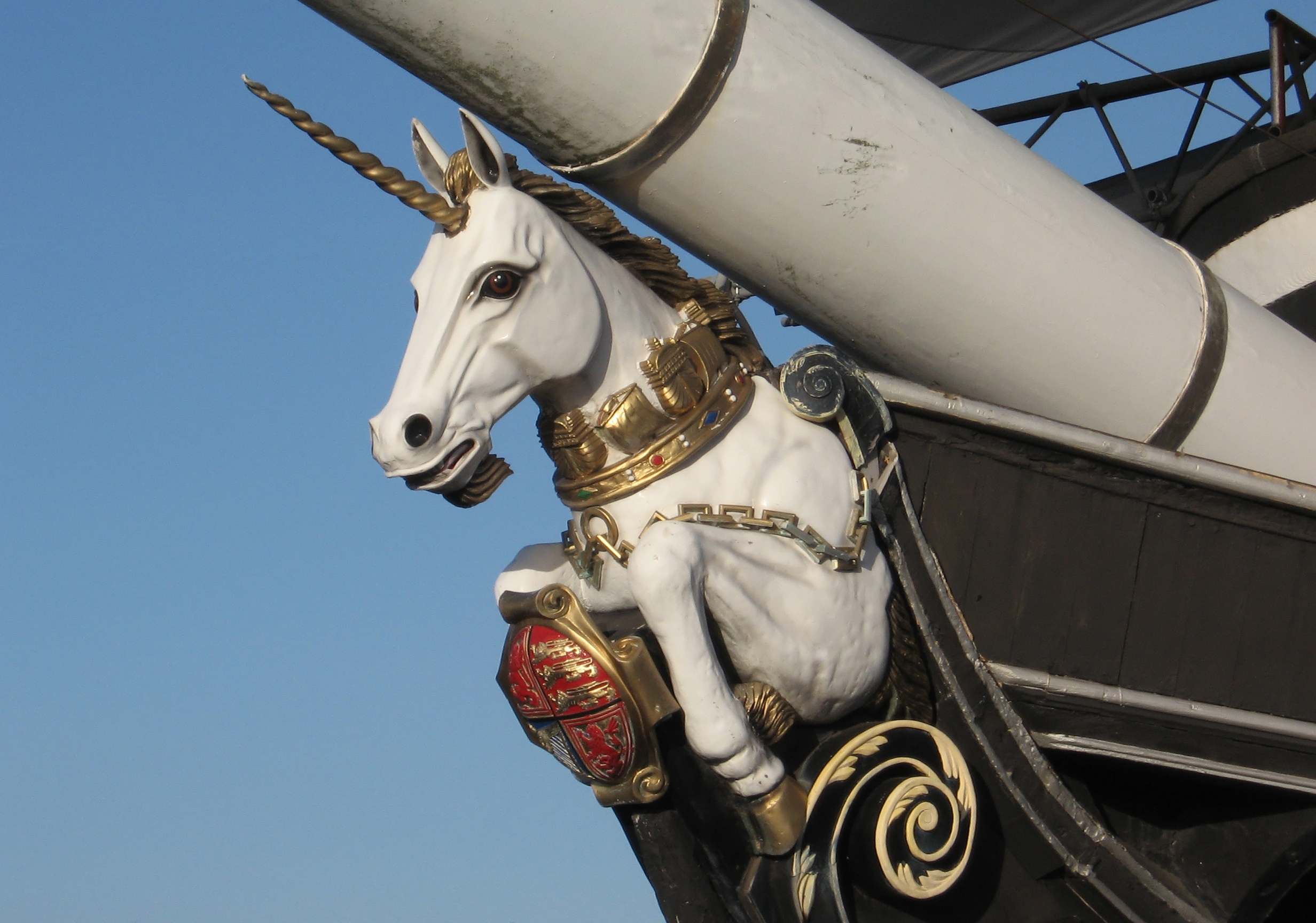 His Majesty’s Frigate Unicorn (1824) in Dundee. Close-up view of the unicorn sculpture at the head of the ship.